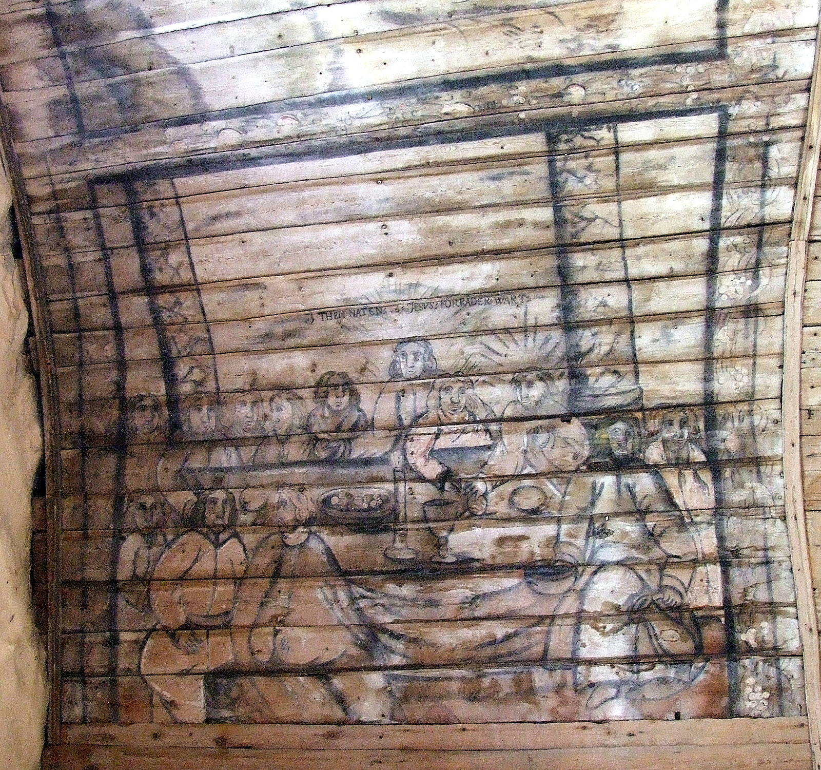 Uknown artist's painting on the ceiling of Keminmaa Medieval church. Painted in 1650. The words in the painting I then naten Jesus förråder wart are in old swedish.